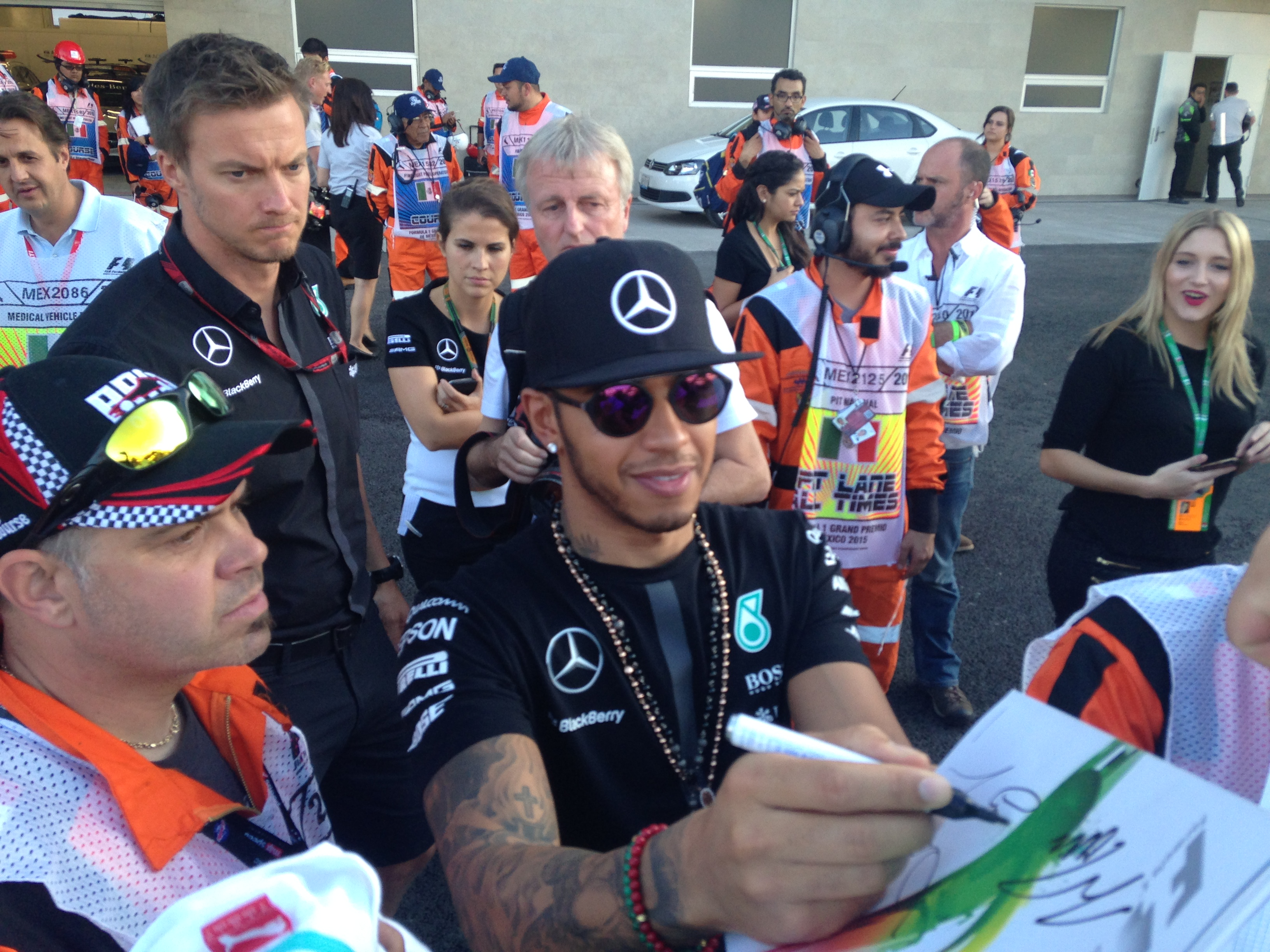 PitWalk Mexican Grand Prix 2015, Autódromo Hermanos Rodríguez. Mexico City, Mexico.